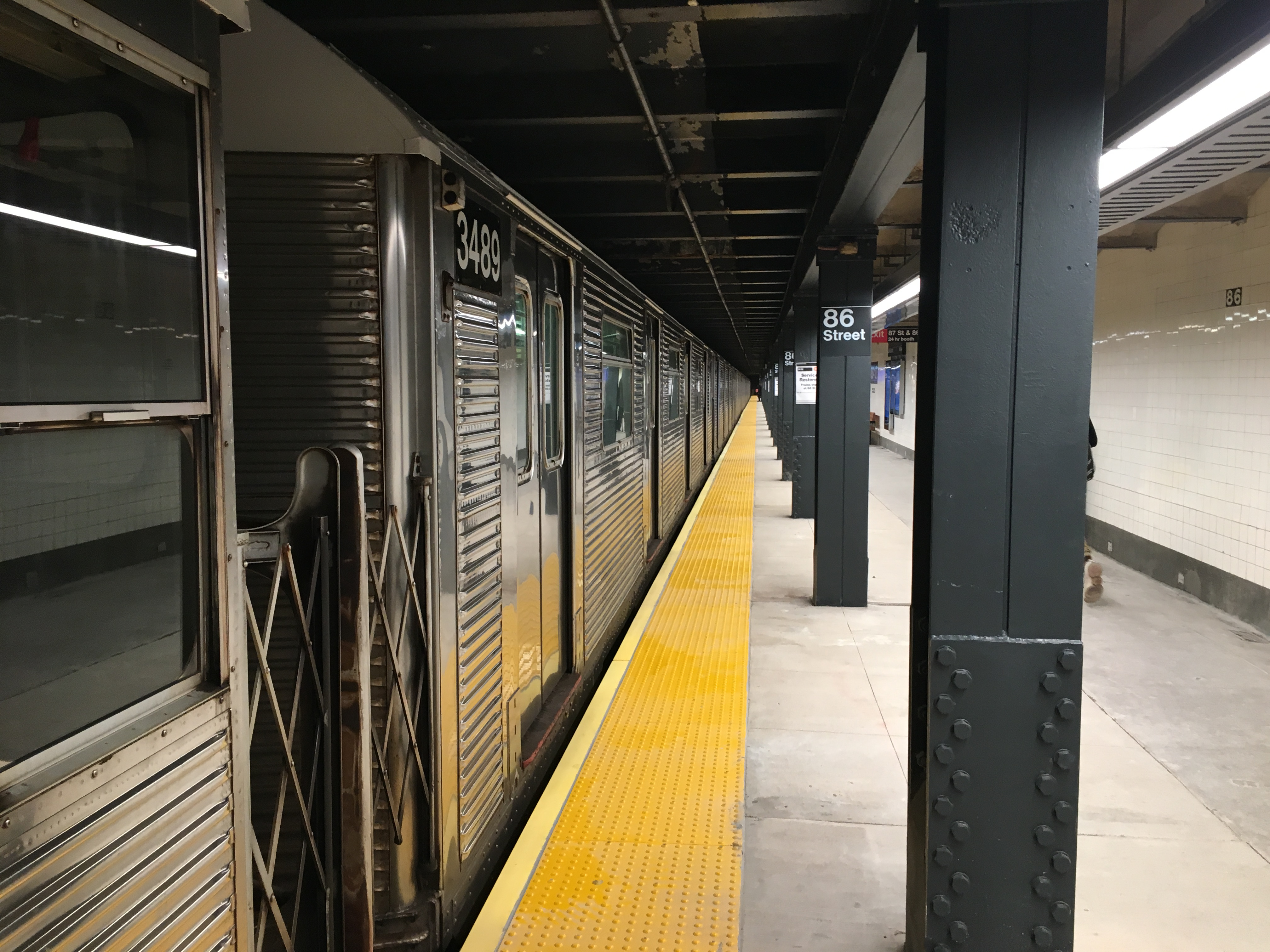 An R32 C train at the reopened 86th Street Station on the IND Eighth Avenue Line